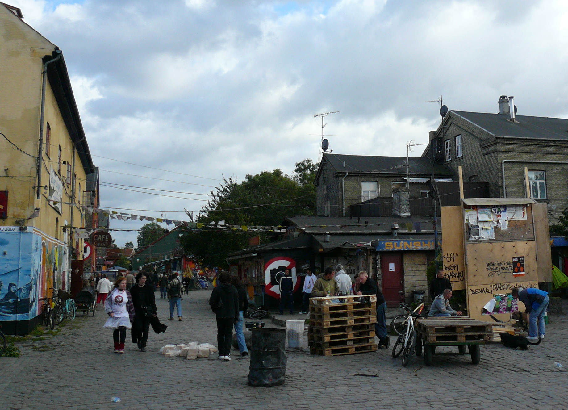 One of the main streets in Christiania, Copenhagen